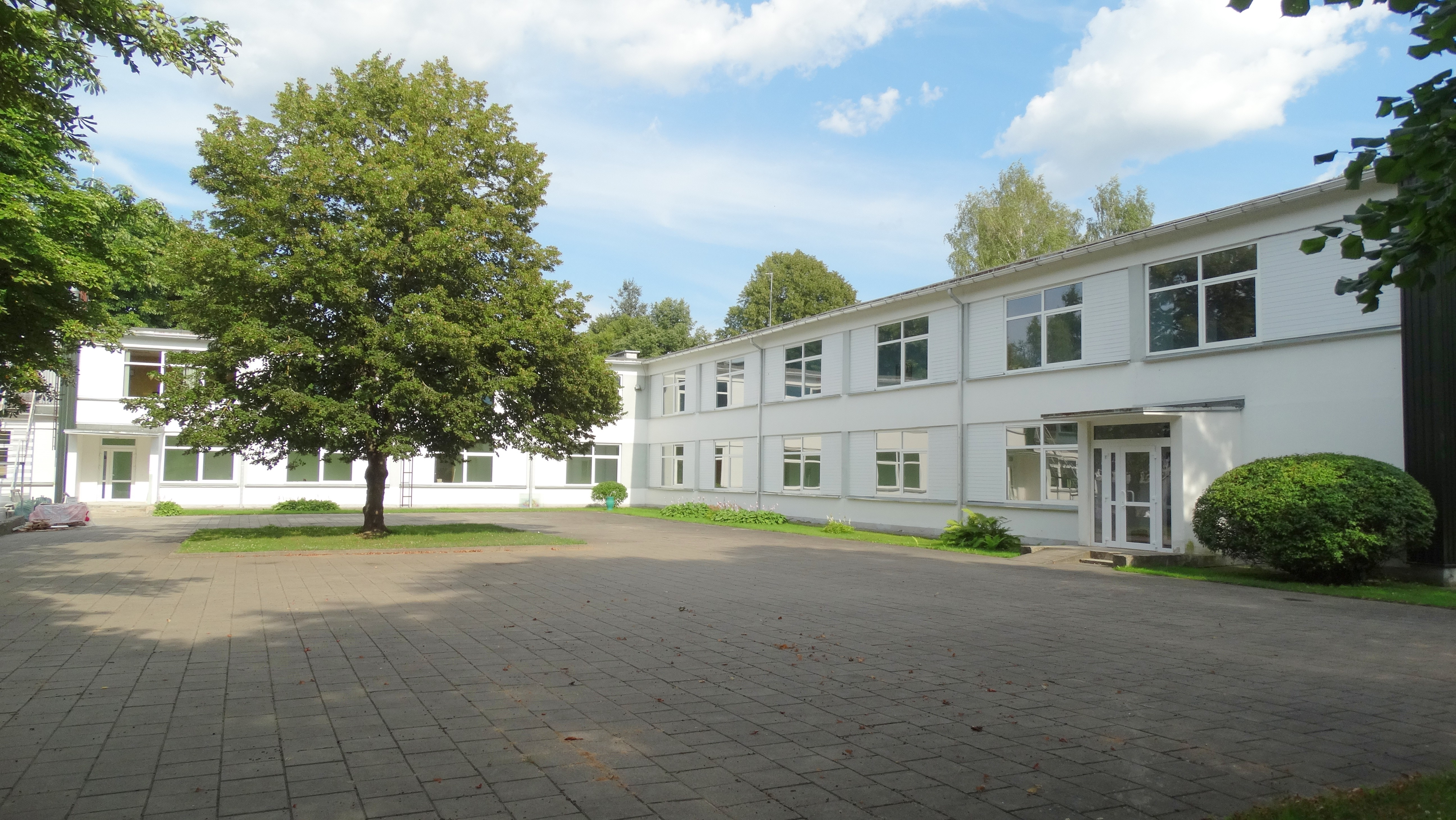 Basic school, Dainava, Ukmergė District, Lithuania